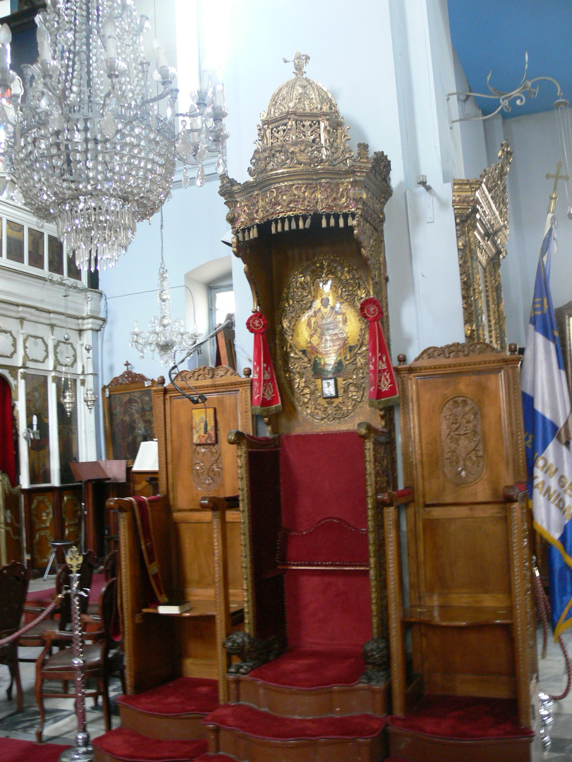 Cathedral of Chania ( Crete ). Cathedra ( chair ) of the bishop.